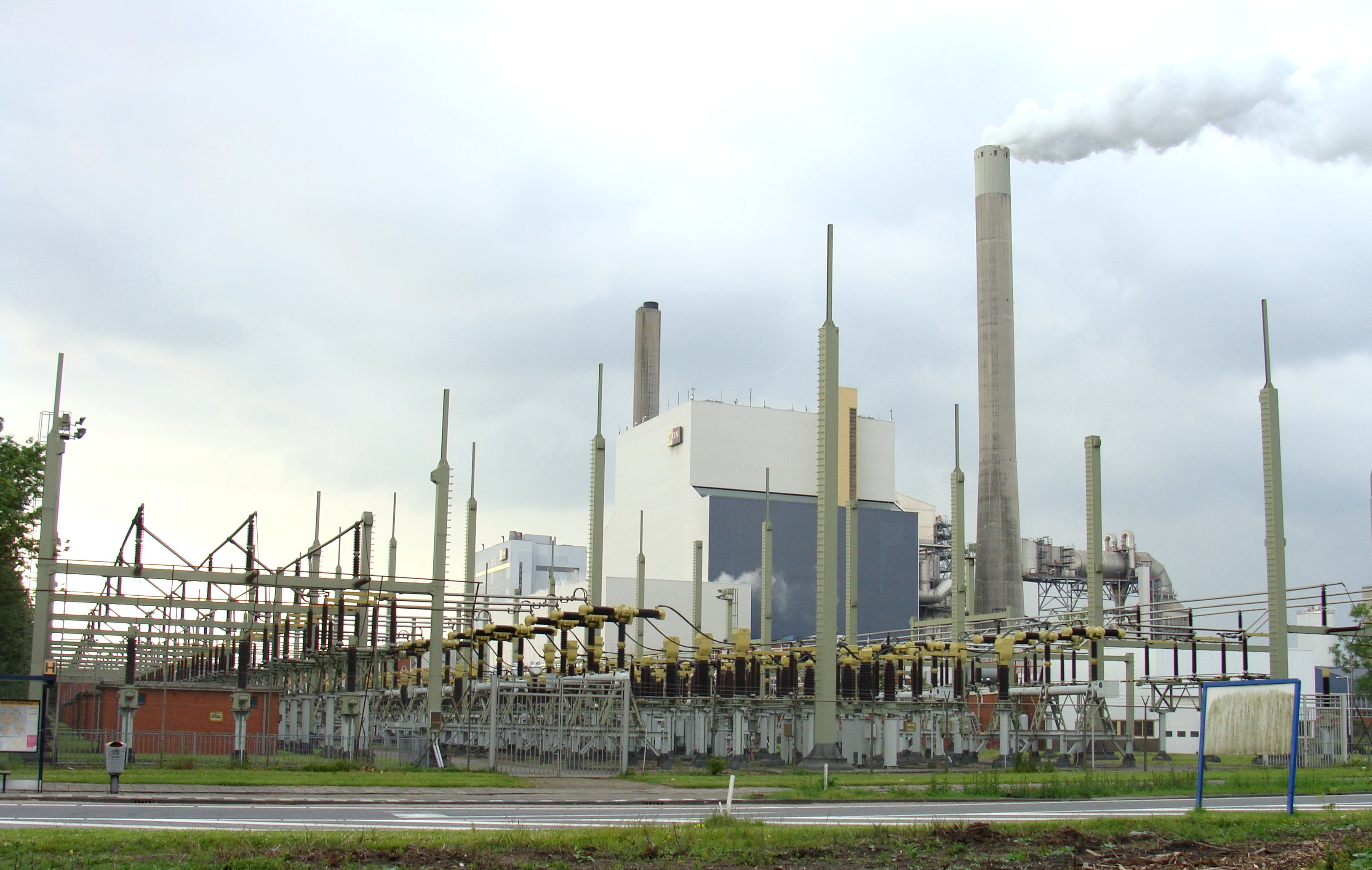 Power station "Centrale Hemweg" in Amsterdam, the Netherlands. In the front the 150 kV switching station, and behind that the two power units: unit 8, which is coal-powered, and in the back unit 7, which is gas-powered.